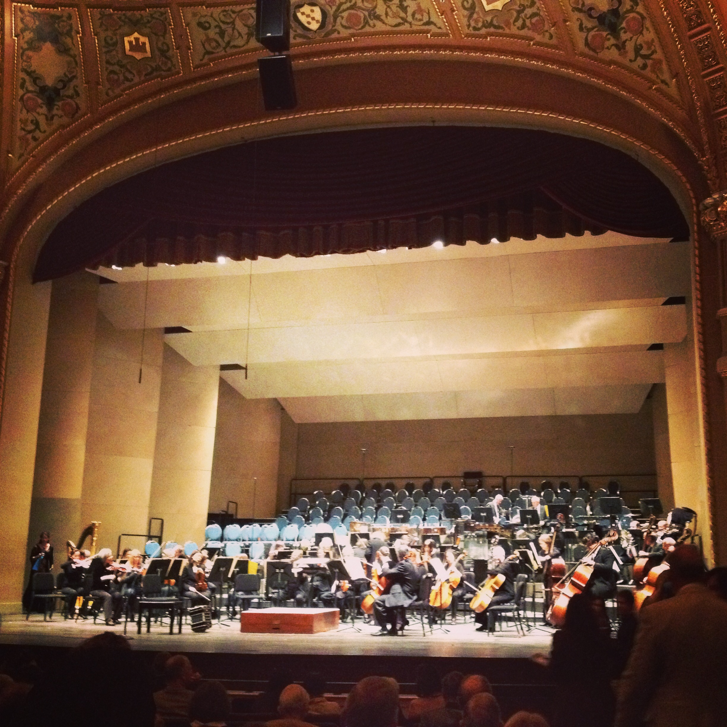 Symphony Silicon Valley, March 2014